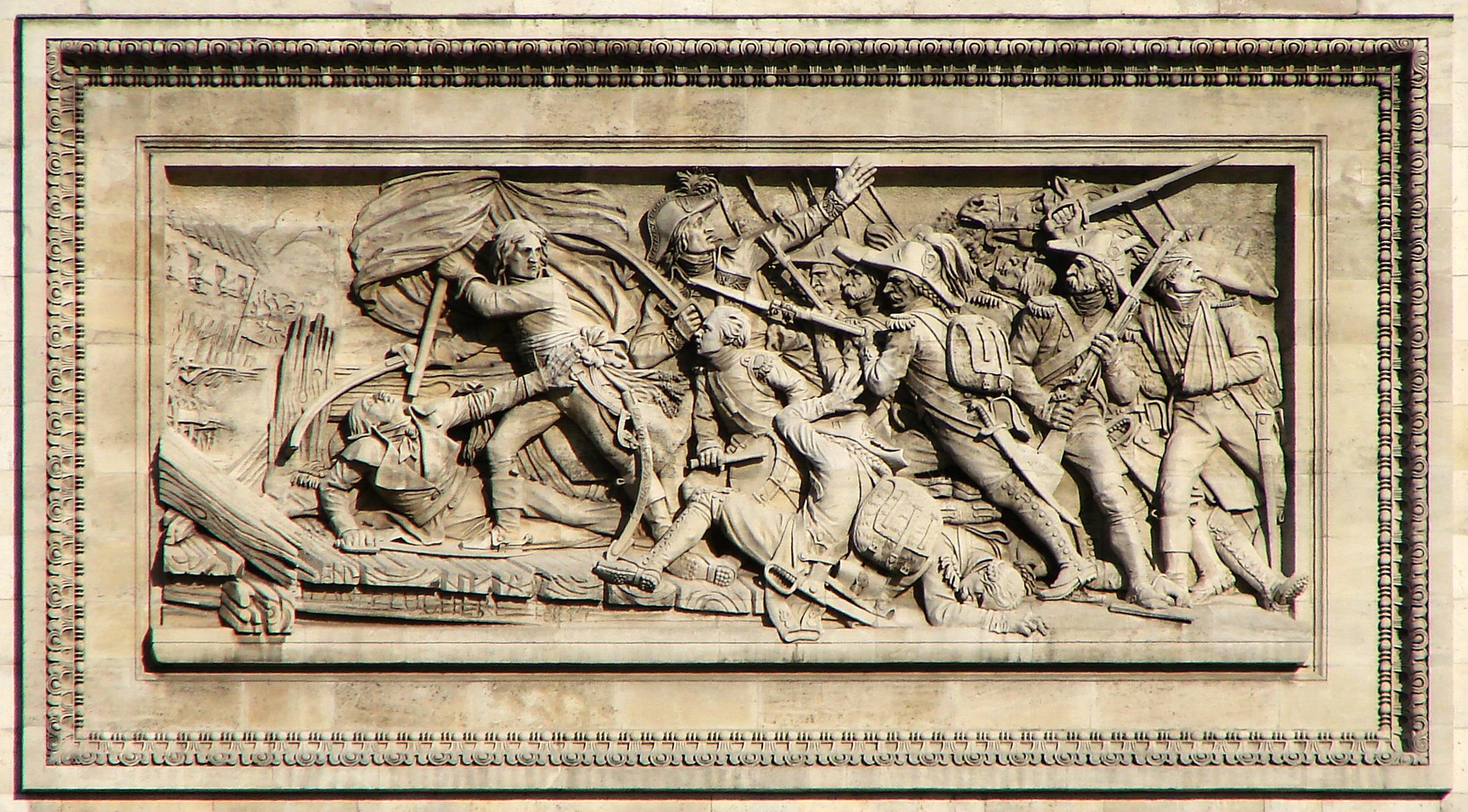 The Arc de Triomphe de l'Étoile in Paris, seen from the avenue de la Grande-Armée. Upper relief of the right : Battle of Arcole 15 nov 1796 by Jean-Jacques Feuchère.